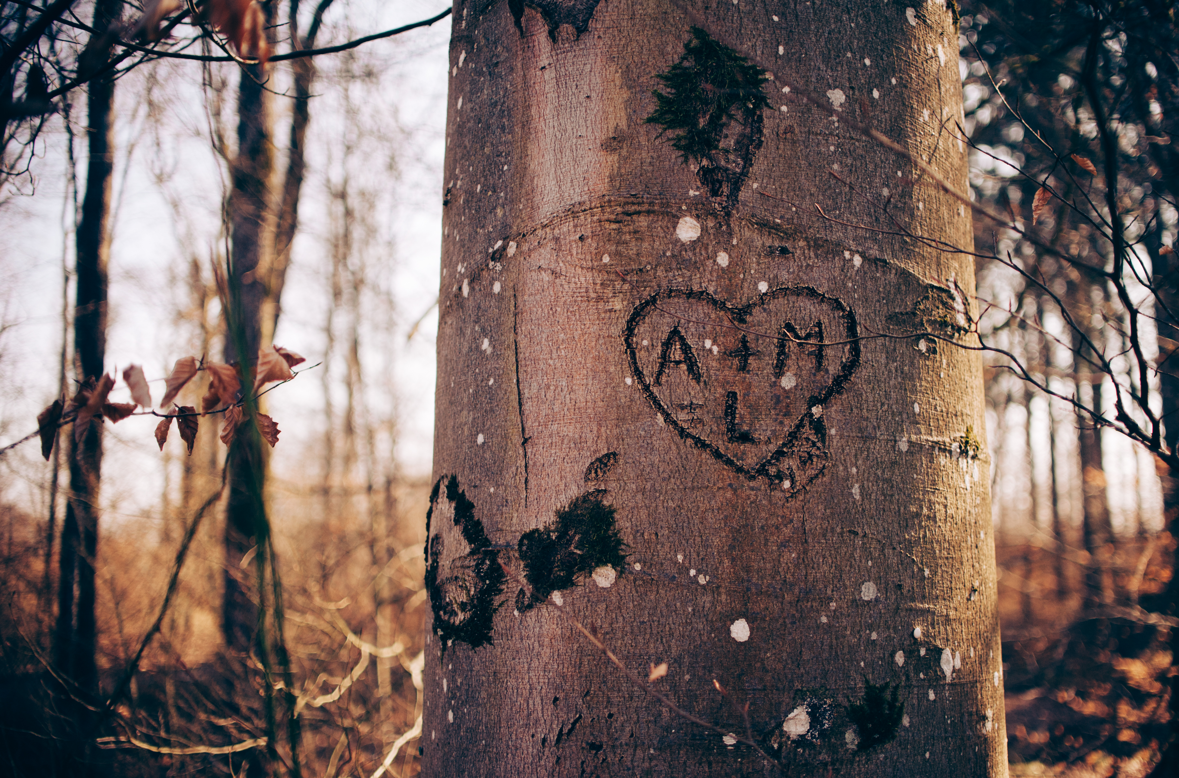 Glenn Carstens-Peters 2017-02-13